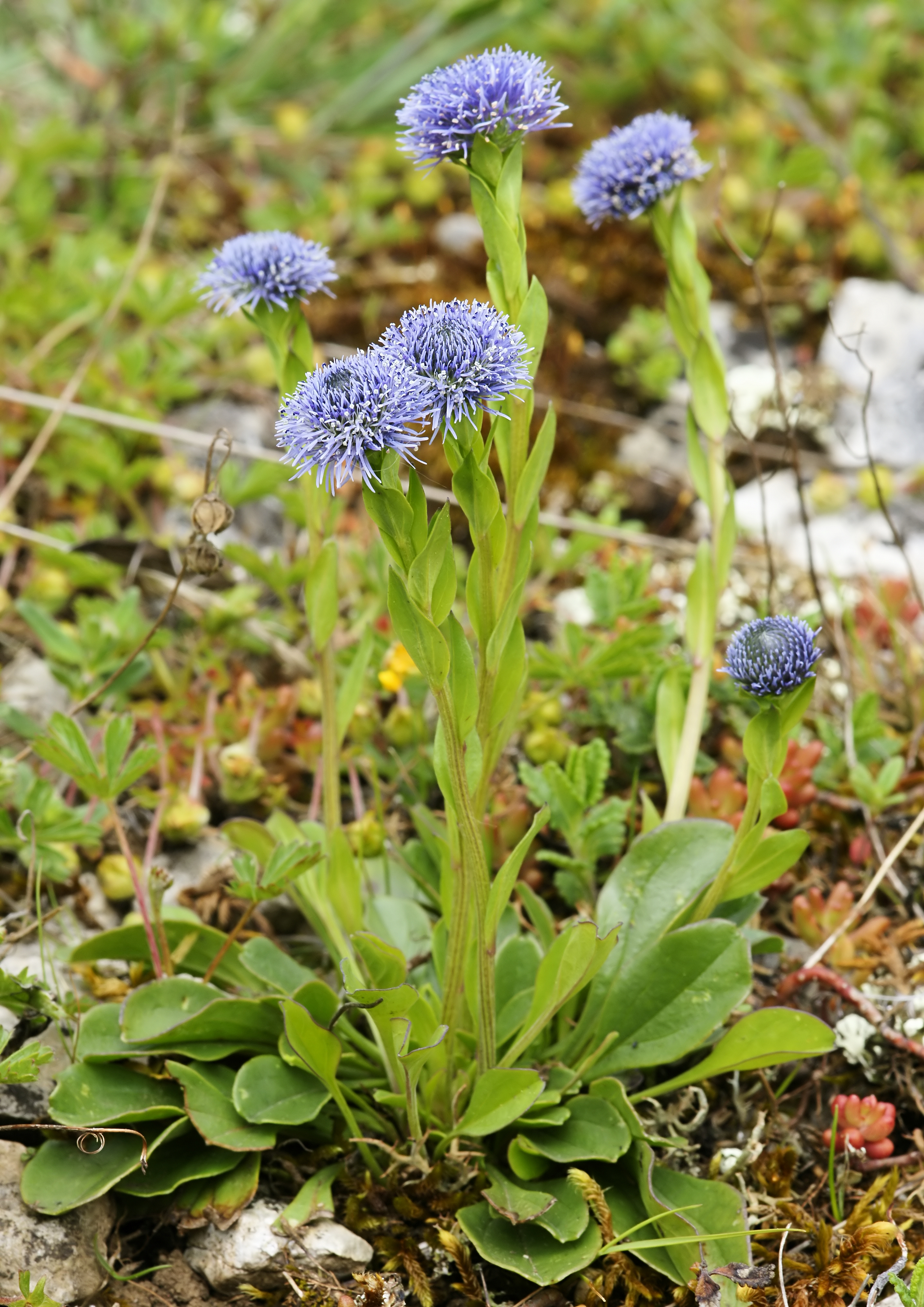 Ball Flower, in Belgium reaching it's most northern distribution. Approximate co-ordinates: plant located within 3 km from Nismes, in Belgium.